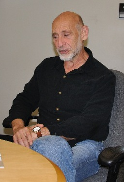 A cropped version of the original to better highlight the subject